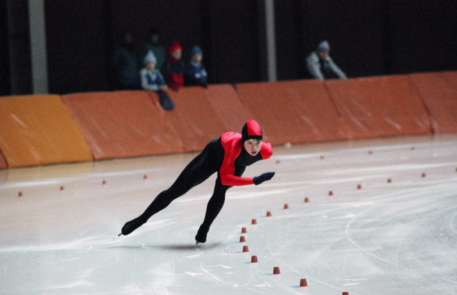 German speedskater Ulrike Adeberg, sister of Peter.